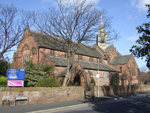 Photograph of St Andrew's Church, West Kirby, Wirral